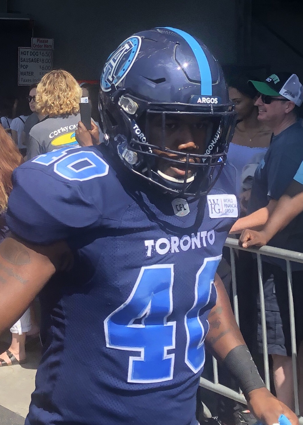 Shawn Lemon, defensive lineman for the Toronto Argonauts.